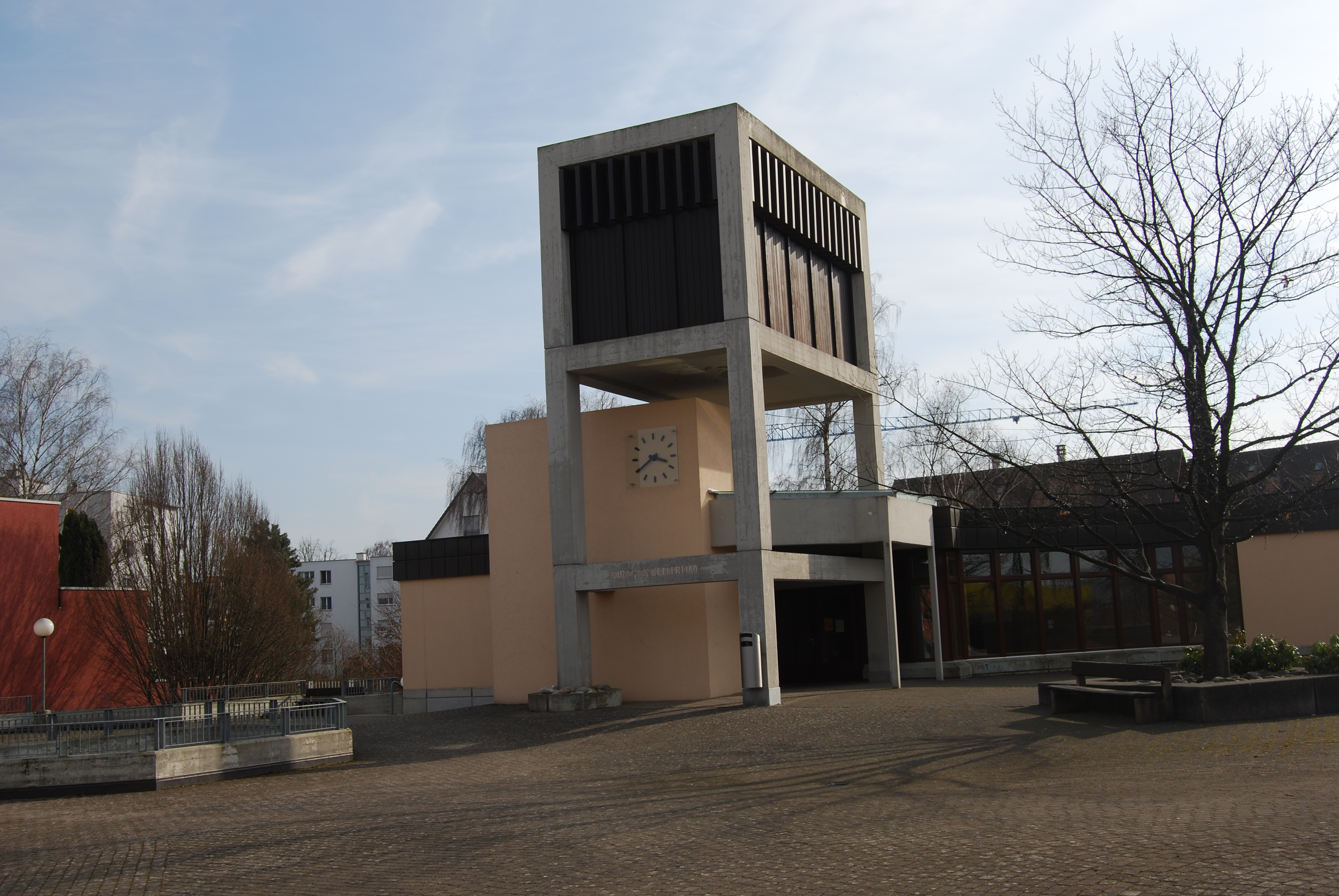 Church of Niederglatt, canton of Zürich, SwitzerlandEsperanto: Preĝejo de Niederglatt, Kantono Zürich, Svislando